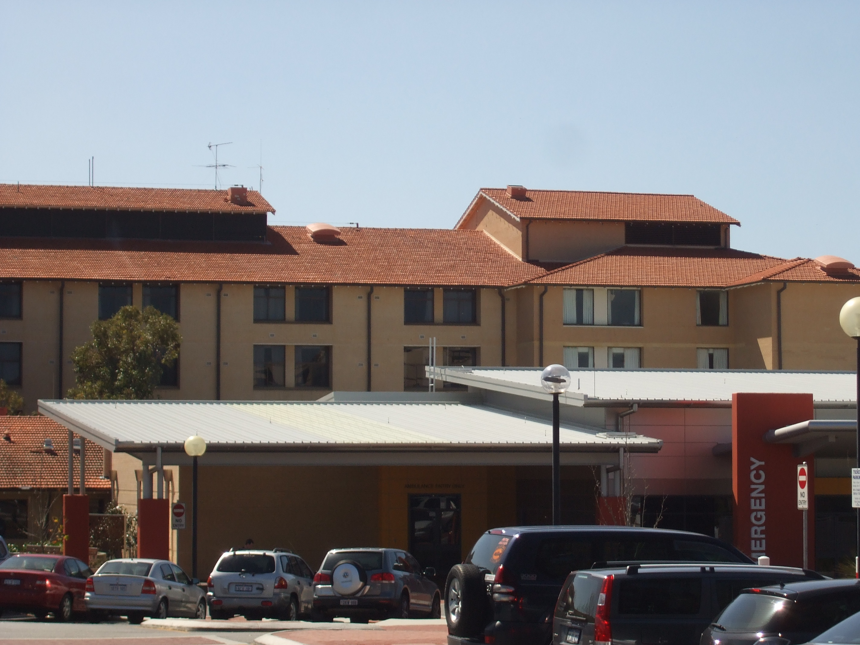 Taken from the car park.